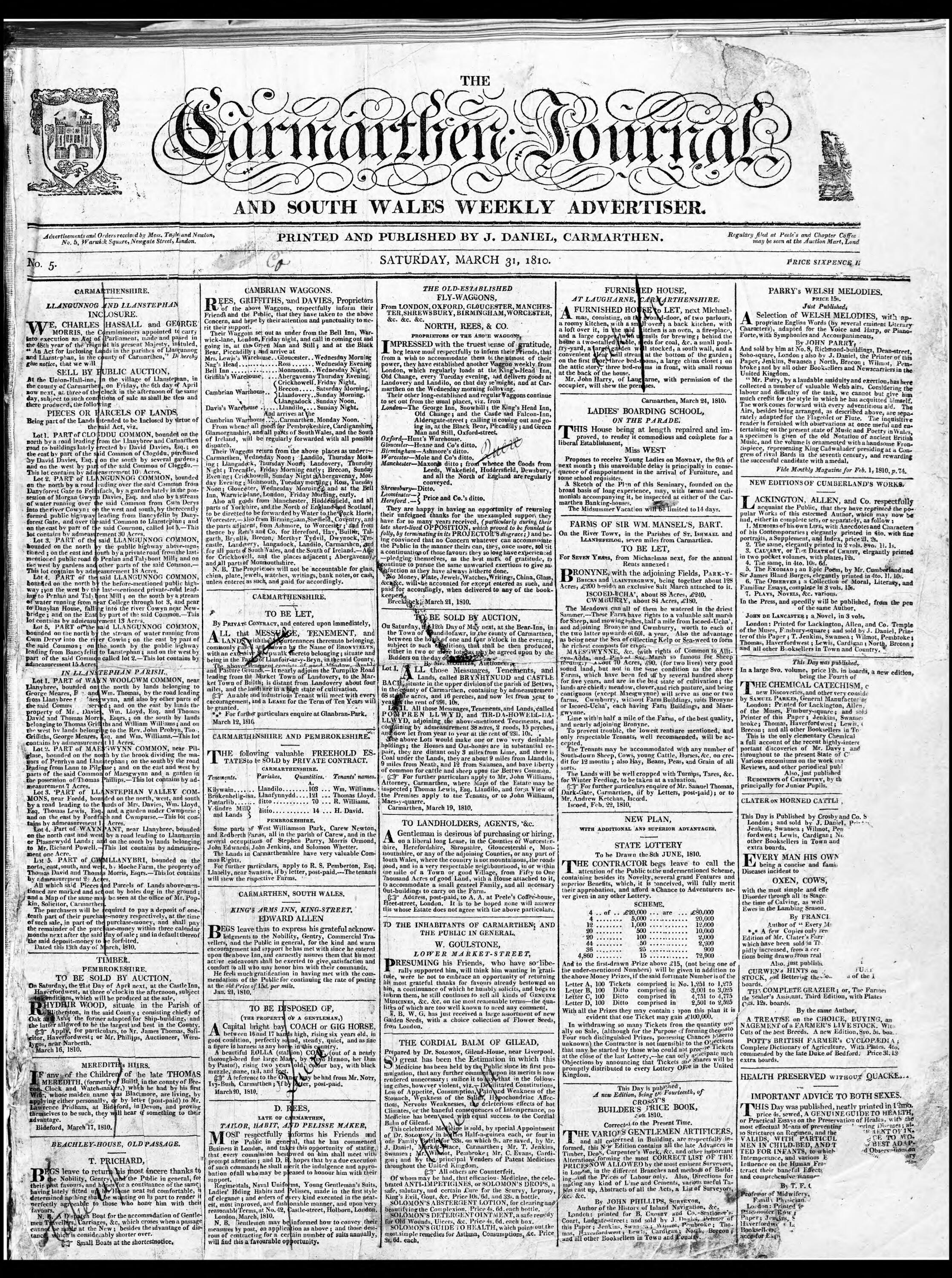 Front page of the earliest surviving copy of the Welsh newspaper The Carmarthen Journal